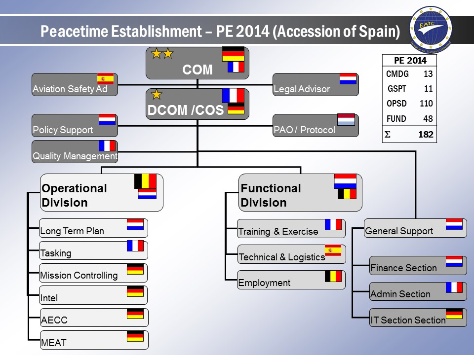 EATC Peacetime Establishment